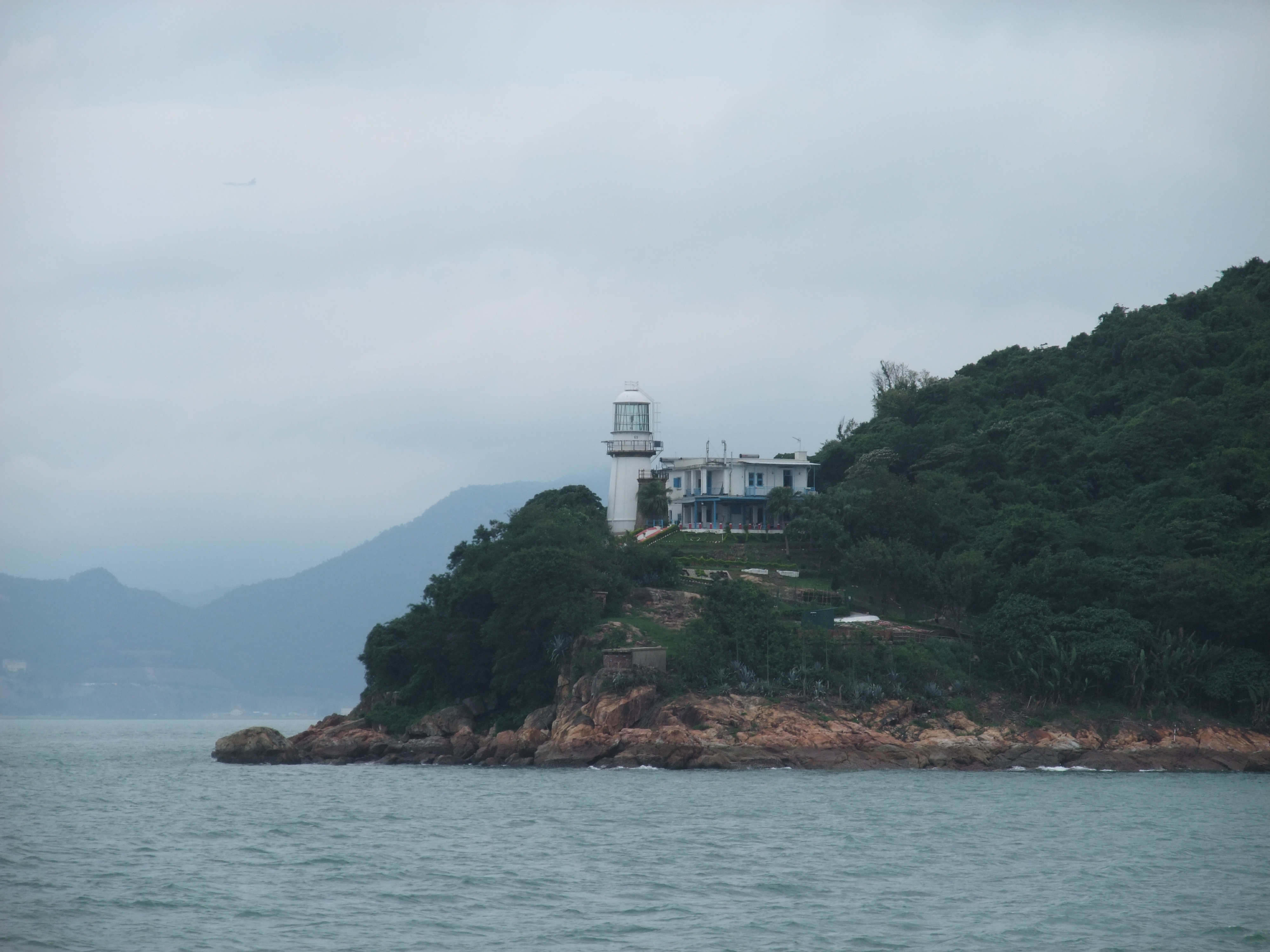 Photo of Green Island Lighthouse